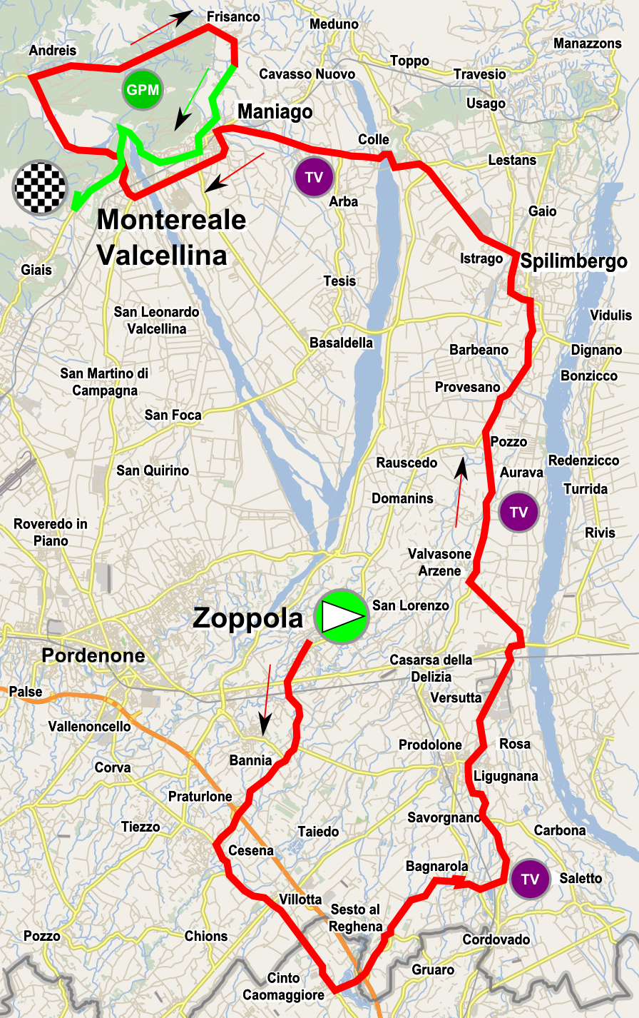 Map of stage 2 of Giro donne 2017.